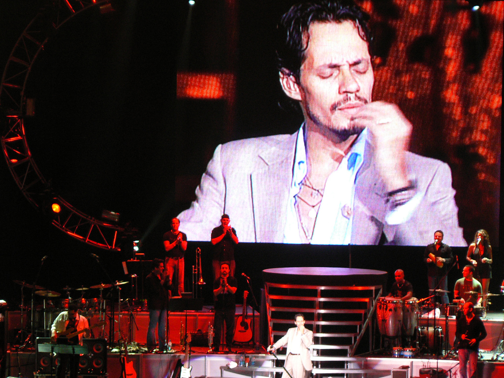 Marc Anthony in Selma, Texas on July 22, 2006 (Justos with Laura Pausini and Marco Antonio Solis)